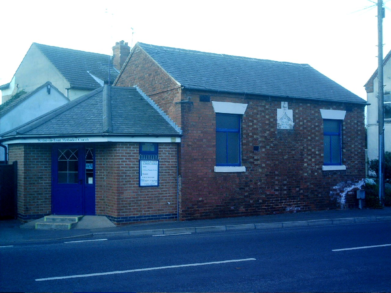 Ebenezer chapel built 1846 is situated opposite the village hall where trent lane meets main street.